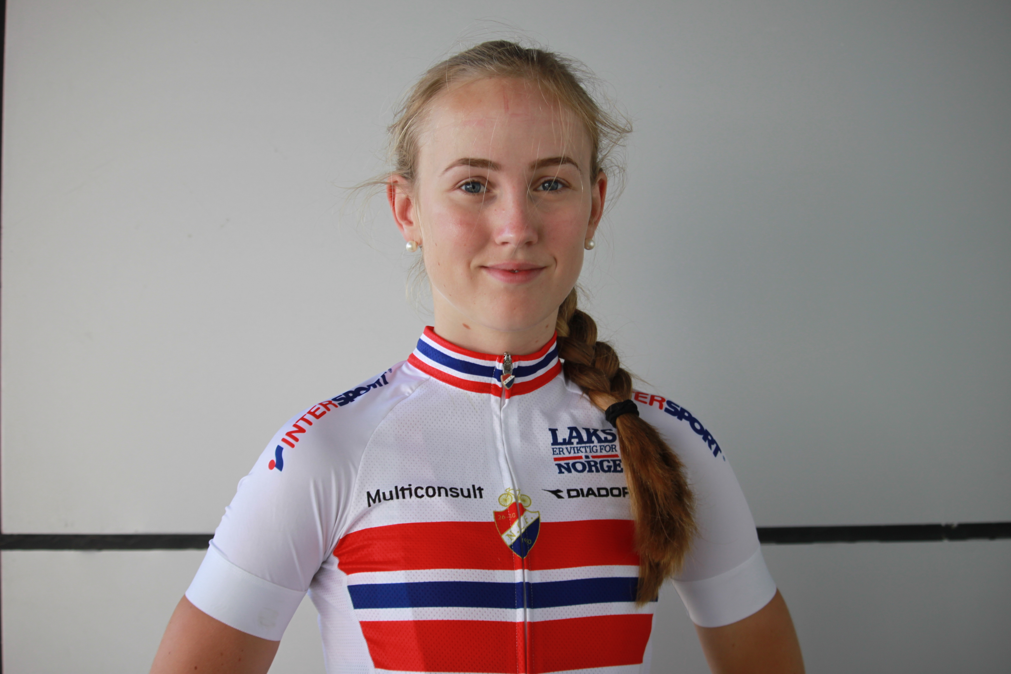 Norwegian Cyclist Ingvild Gåskjenn, photographed in 2016.